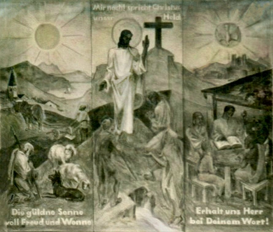 former Altarpiece of the Evangelical Church of Lautawerk, now Lauta, Saxony